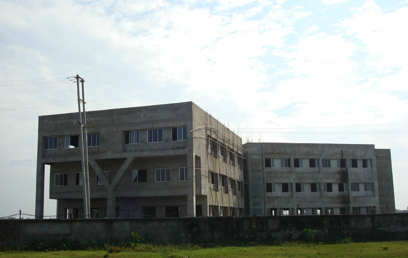 Ne food park tihu